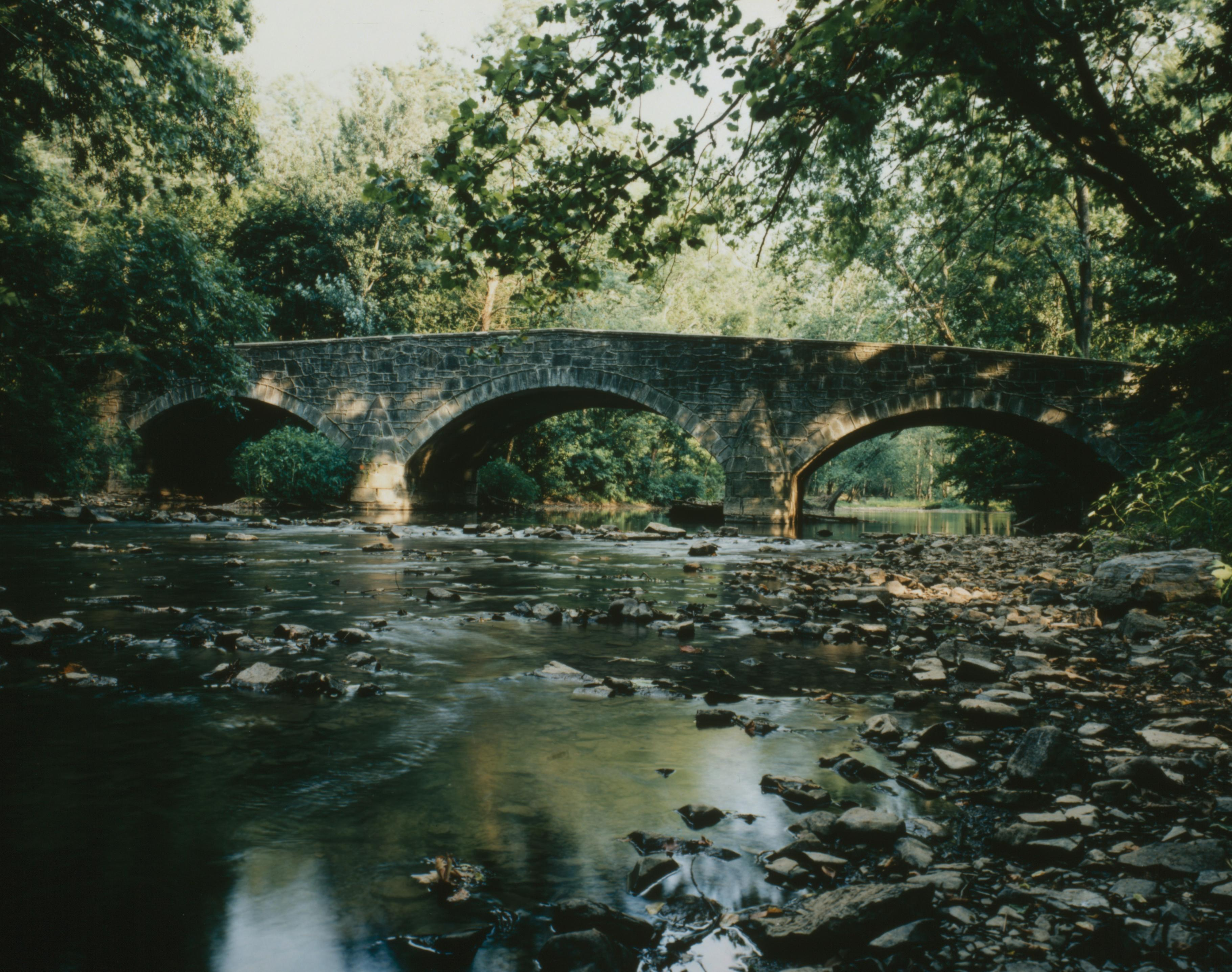 Maclay's Mill Twin Bridge (East & West), Spanning Conodoguinet Creek at Maclay's Mill Road , Mowersville vicinity (Franklin County, Pennsylvania).